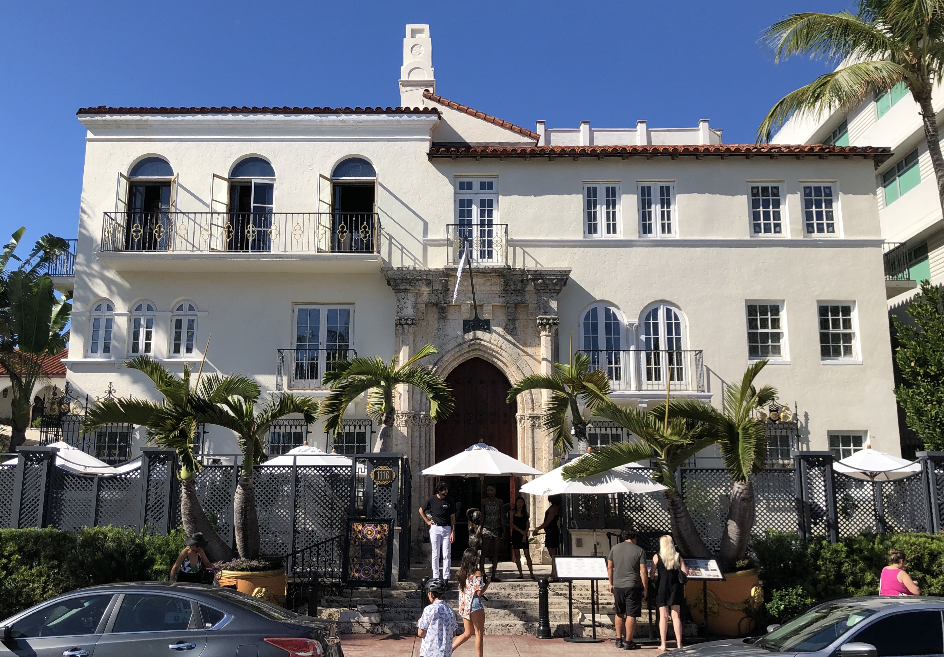 Casa Casuarina in December 2019.